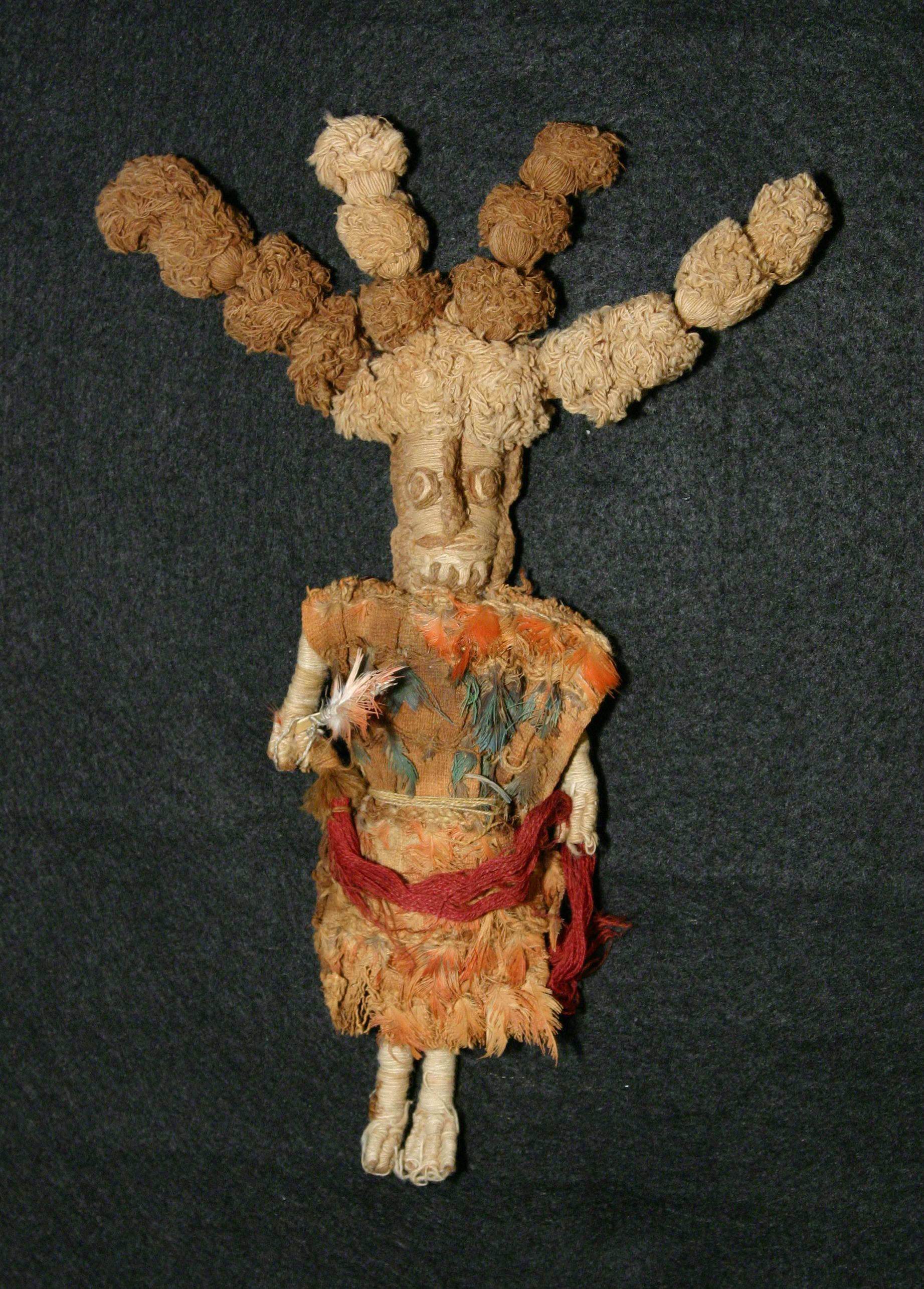 doll with feathered tunic, Chancay 1100-1400 A.D.